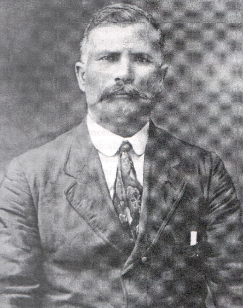 1919 photograph of mobster Vito Bonventre from passport application